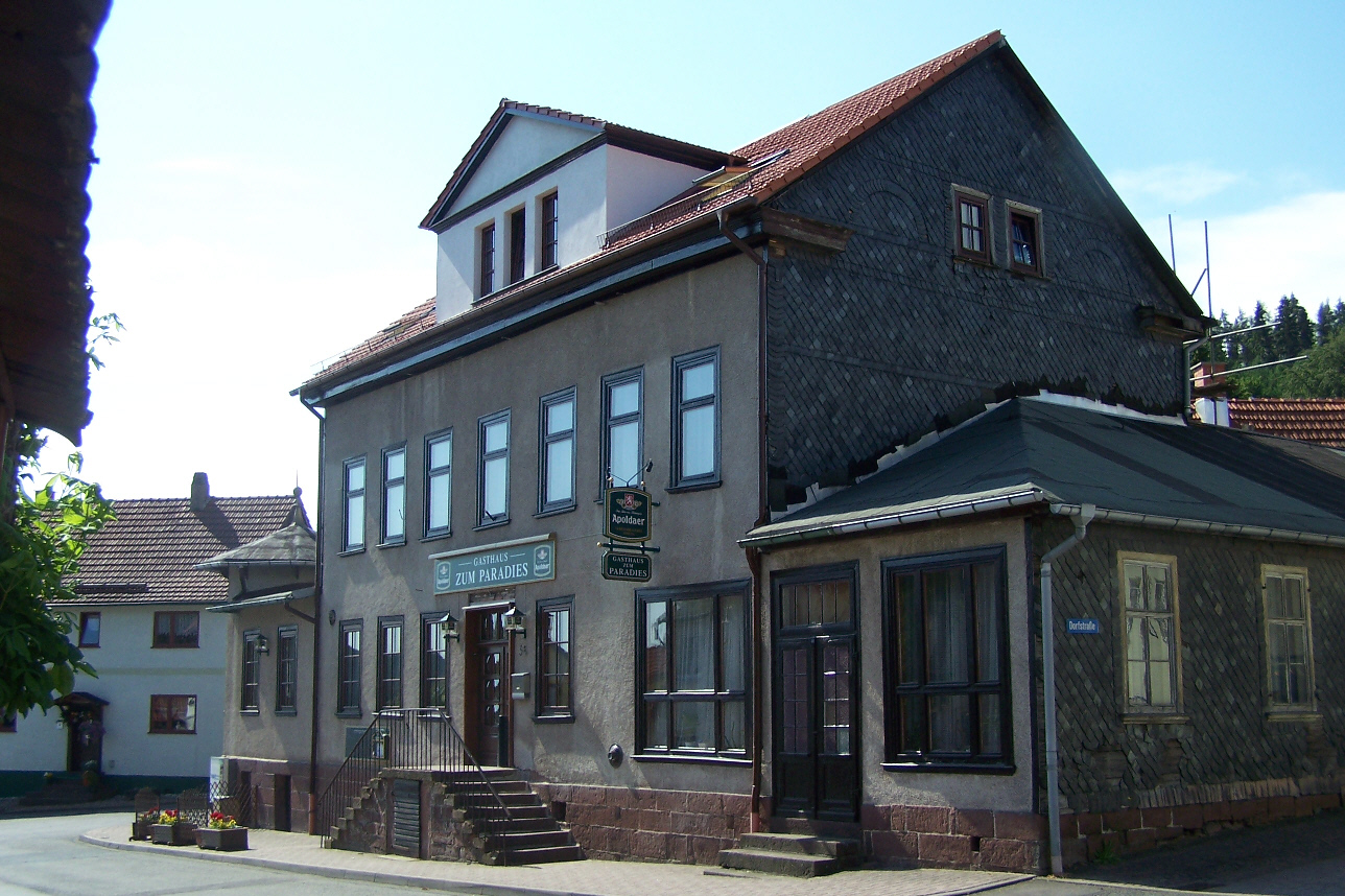 In Engelsbach village: the Old Inn ZUM PARADIES.